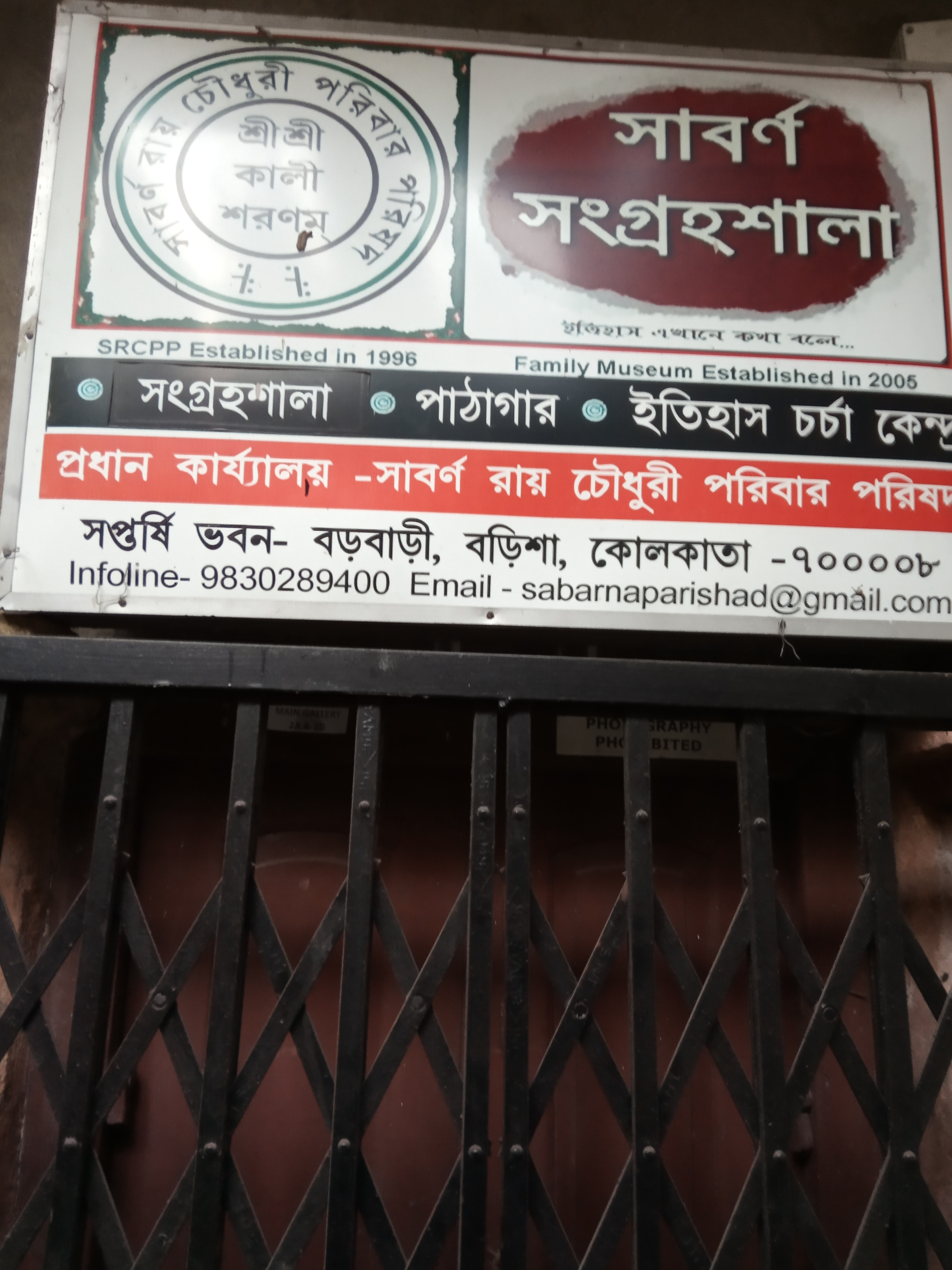 This file represents the the famous Sabarna Sangrahashala or family museum of Sabarna family of Barisha, Behala in Kolkata City.